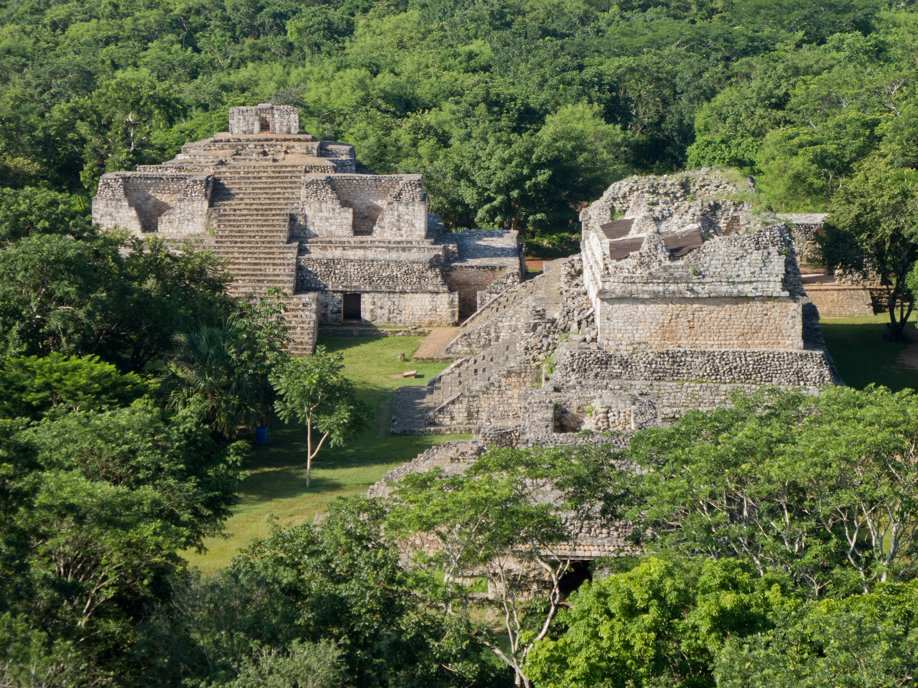 Ek' balam, Yucatán, Mexico.